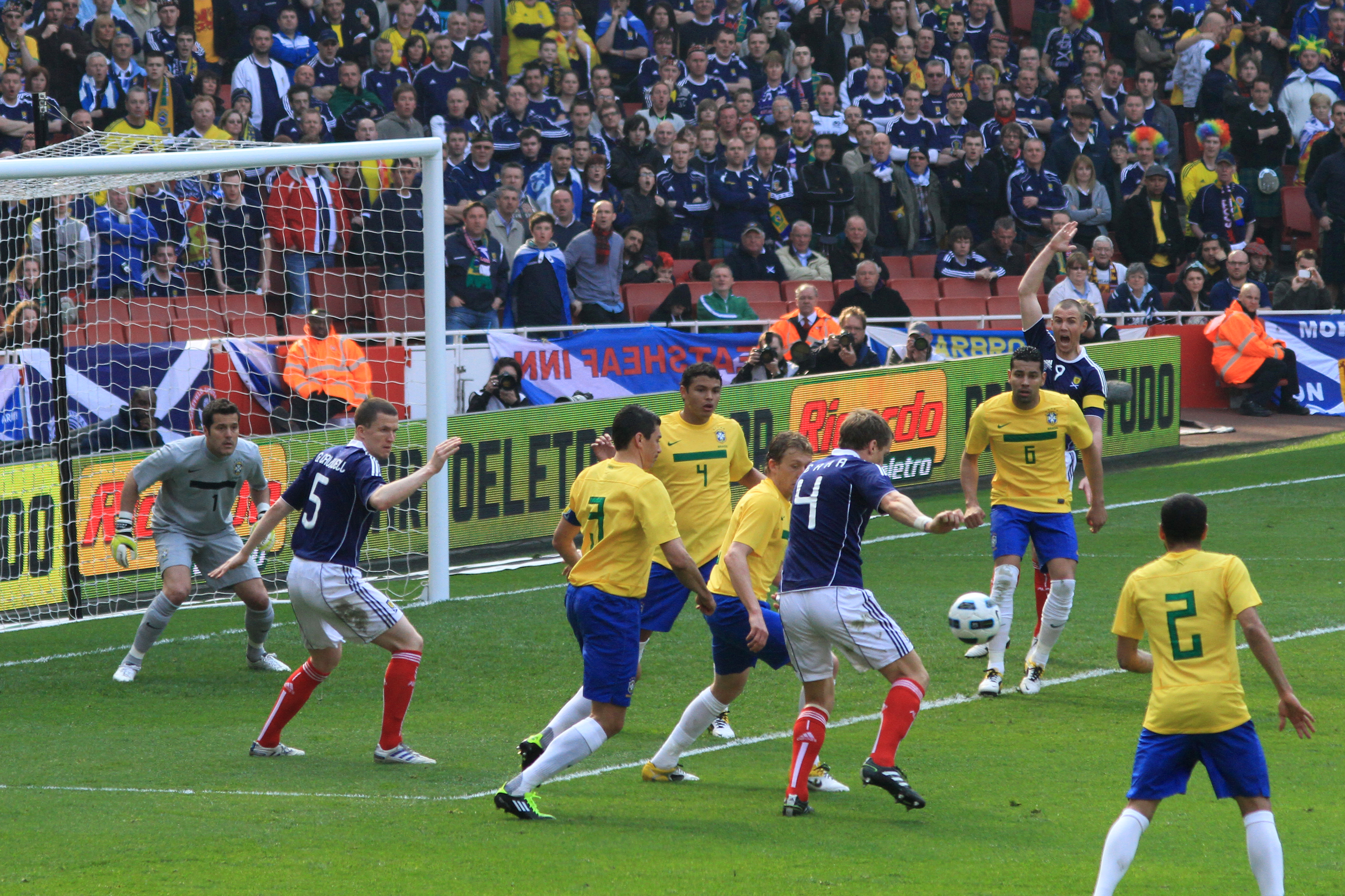 Give it to Kenny 2